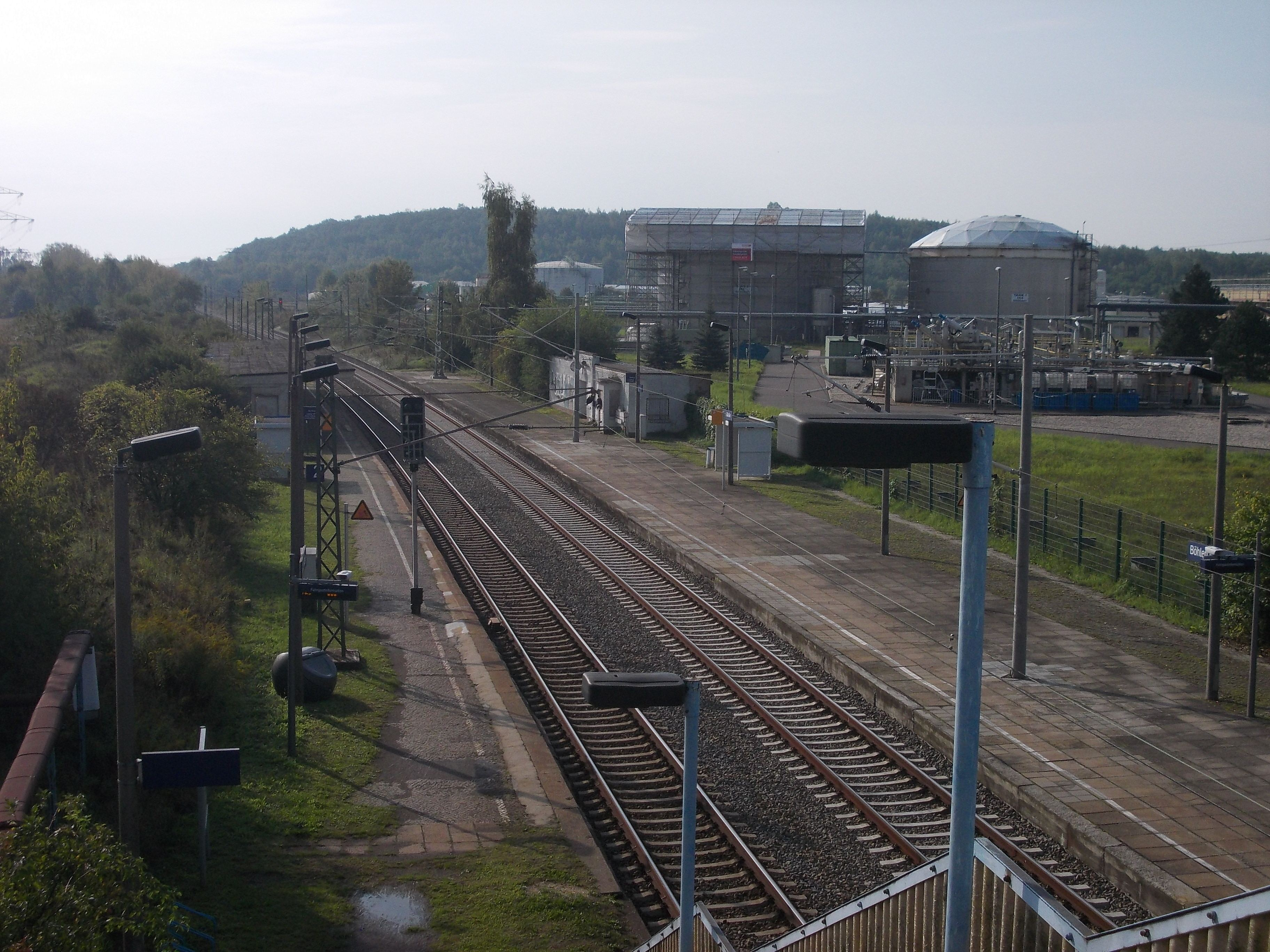 Böhlen Werke train station (Leipzig district, Saxony)